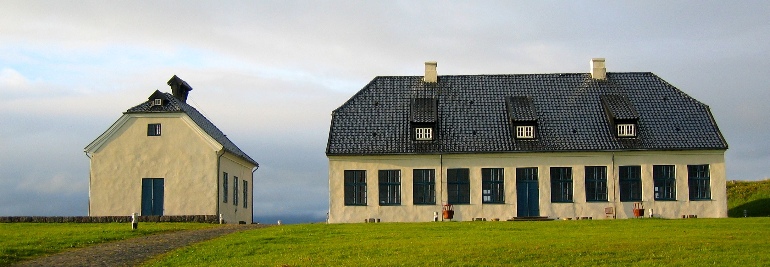 The church Viðeyjarkirkja (left) and the house Viðeyjarstofa (right) on the island Viðey in Reykjavik, Iceland. Architect: Georg David Anthon (1714 - 1781)